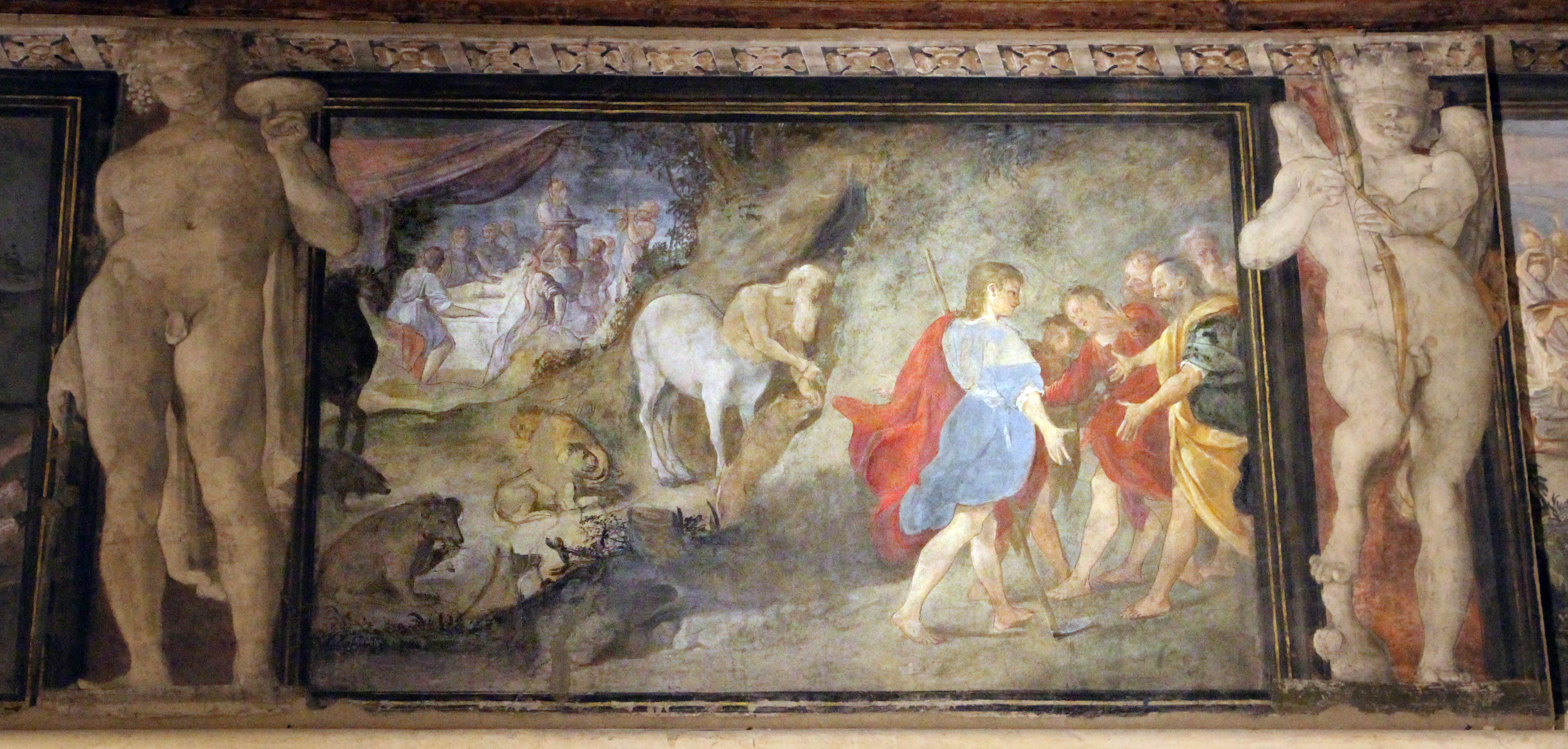 Frieze of Jason and Medea